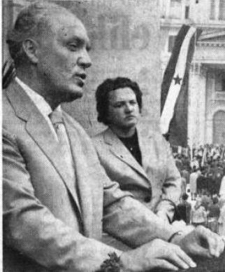 Sergej Kraigher (30 May 1914 – 17 January 2001), Slovene Communist politician